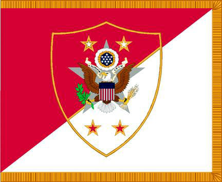 Sergeant Major of the Army Flag The flag, approved by the Chief of Staff, Army on 22 Mar 99, background is divided diagonally from lower hoist to upper fly with scarlet above white. Centered on the flag is the insignia for the Sergeant Major of the Army in full color. The fringe is yellow; the cords and tassels are scarlet and white. Collar Insignia: On a gold color disk, 1 inch in diameter, a shield divided from lower left to upper right, the upper part red and the lower part white, a silver five-pointed star surmounted by the coat of arms of the United States in gold, red, white and blue between two white five-pointed stars at the top and two red five-pointed stars at bottom.